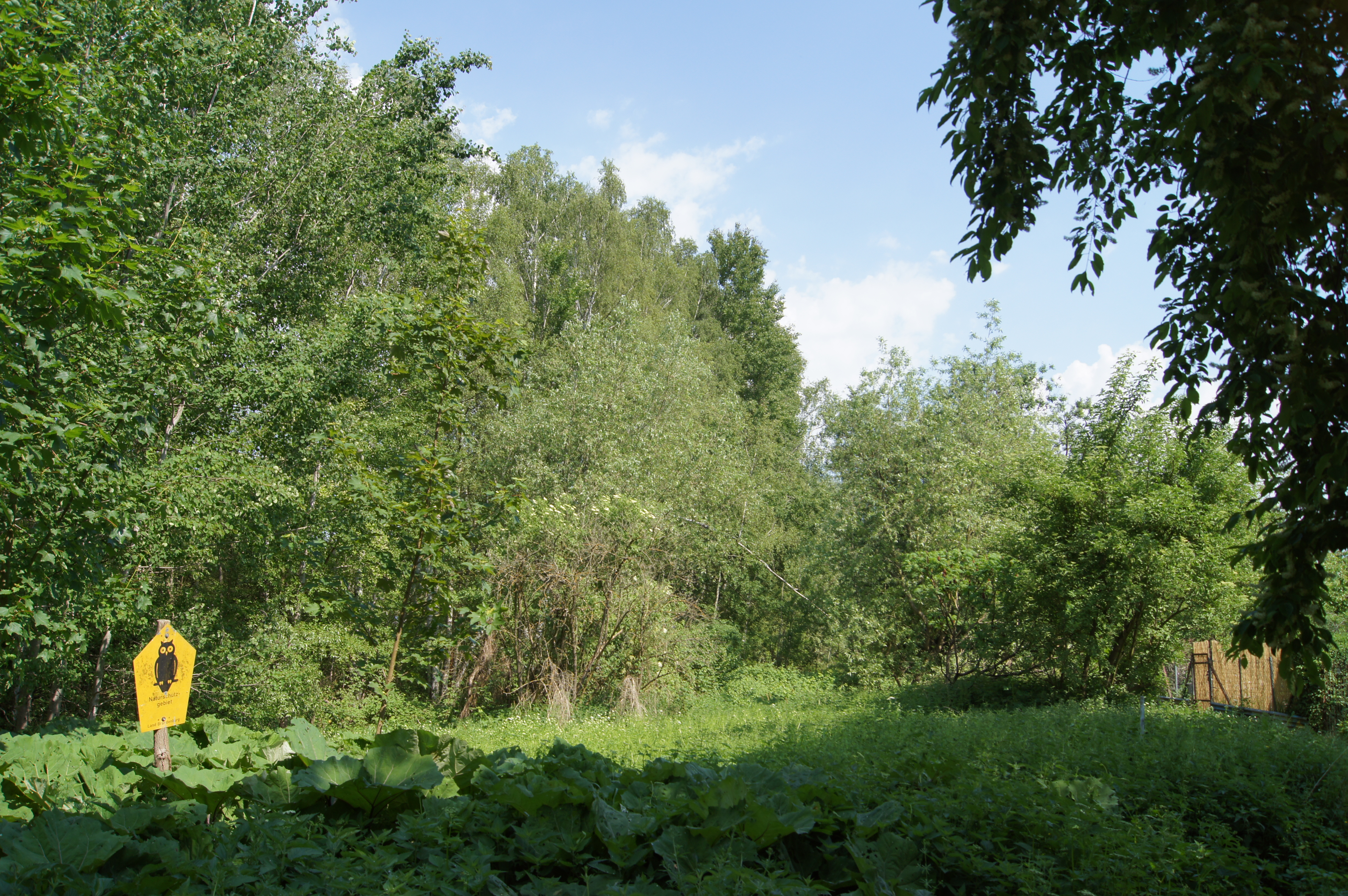 Naturschutzgebiet "Oberes Klingetal" in Frankfurt (Oder), Germany